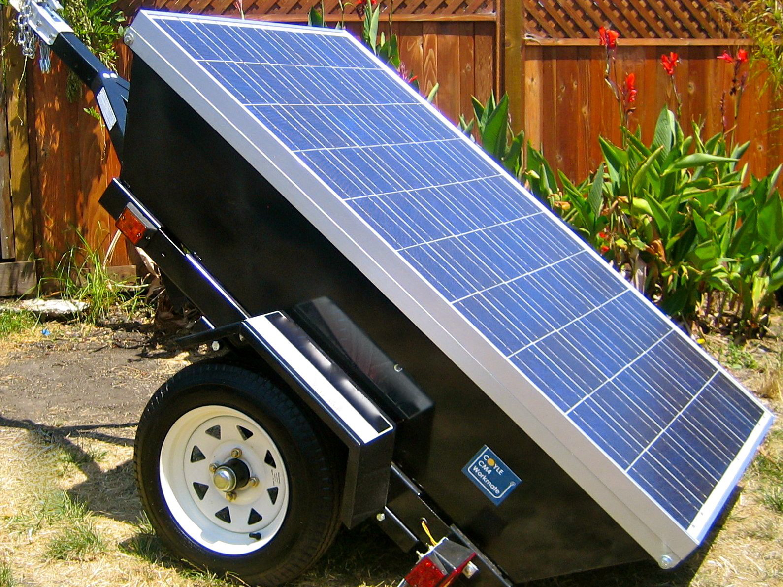 Profile picture of a mobile solar powered generator. Device built in Wilmington, NC by Coyle